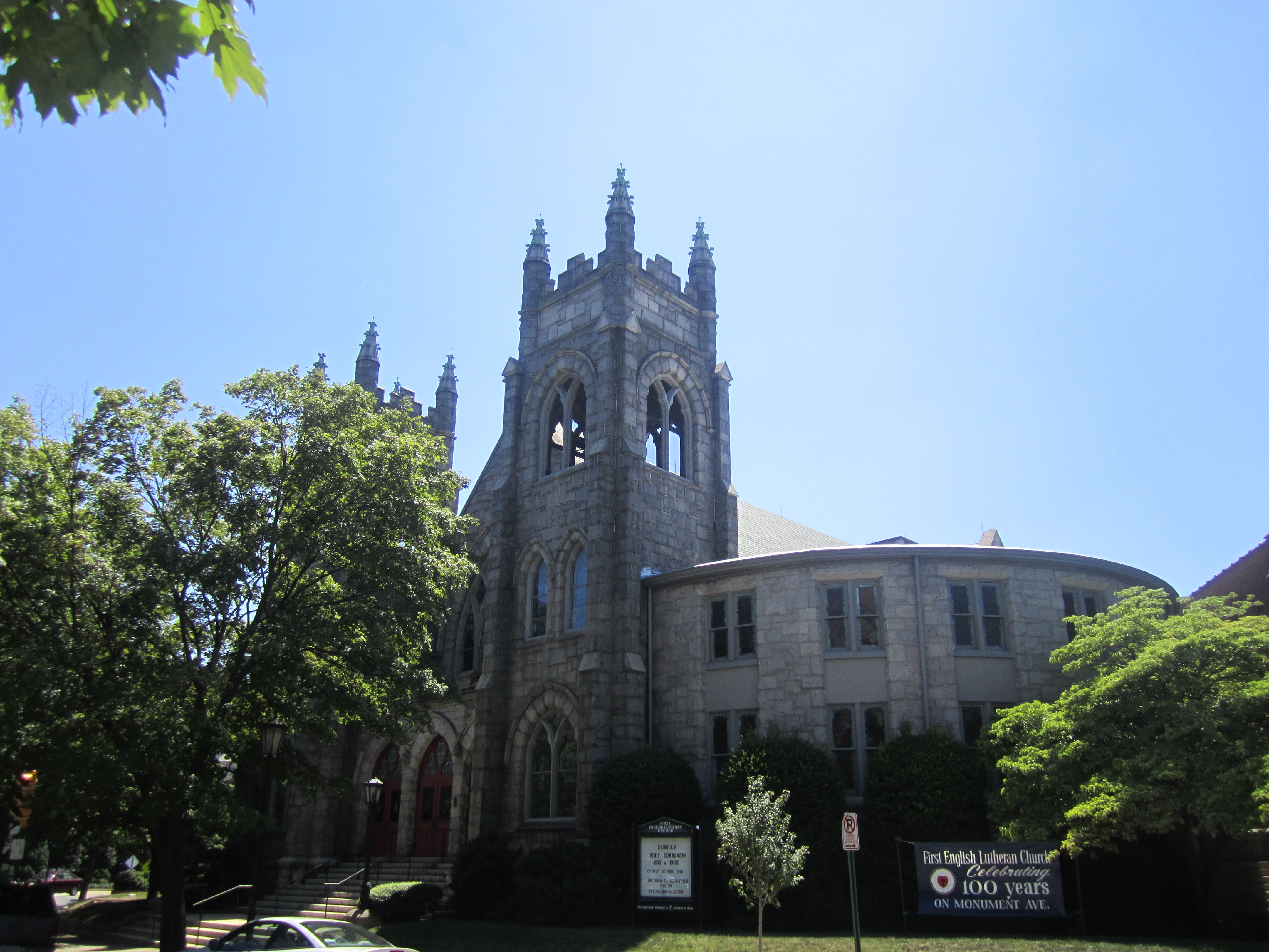 I took photo with Canon camera of First English Lutheran Church on Monument Avenue in Richmond, Va.